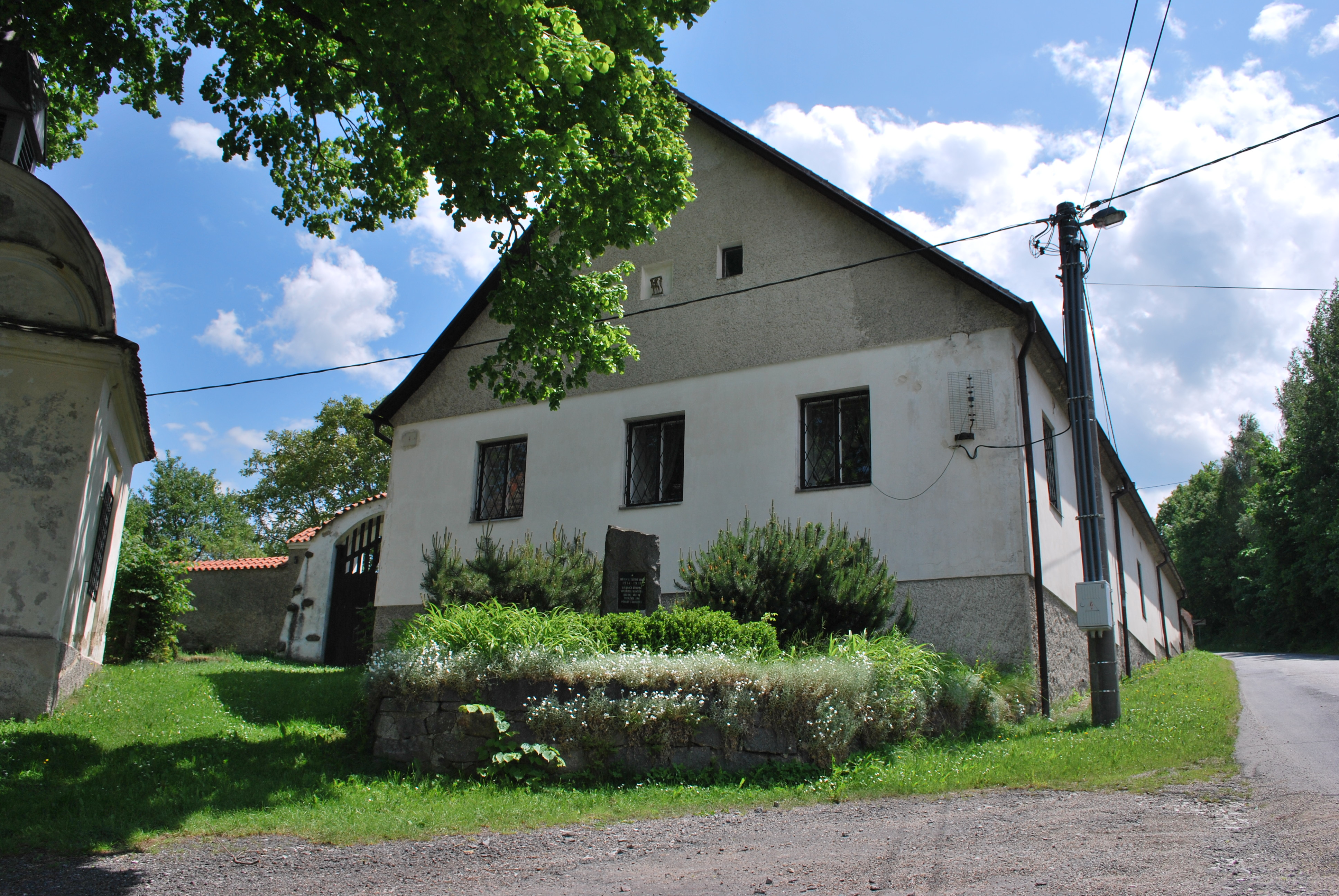 Nahořánky village, part of village Strašín in Klatovy District, Czech republic. World War I memorial This photograph was taken within the scope of the 'Czech Municipalities Photographs' grant.